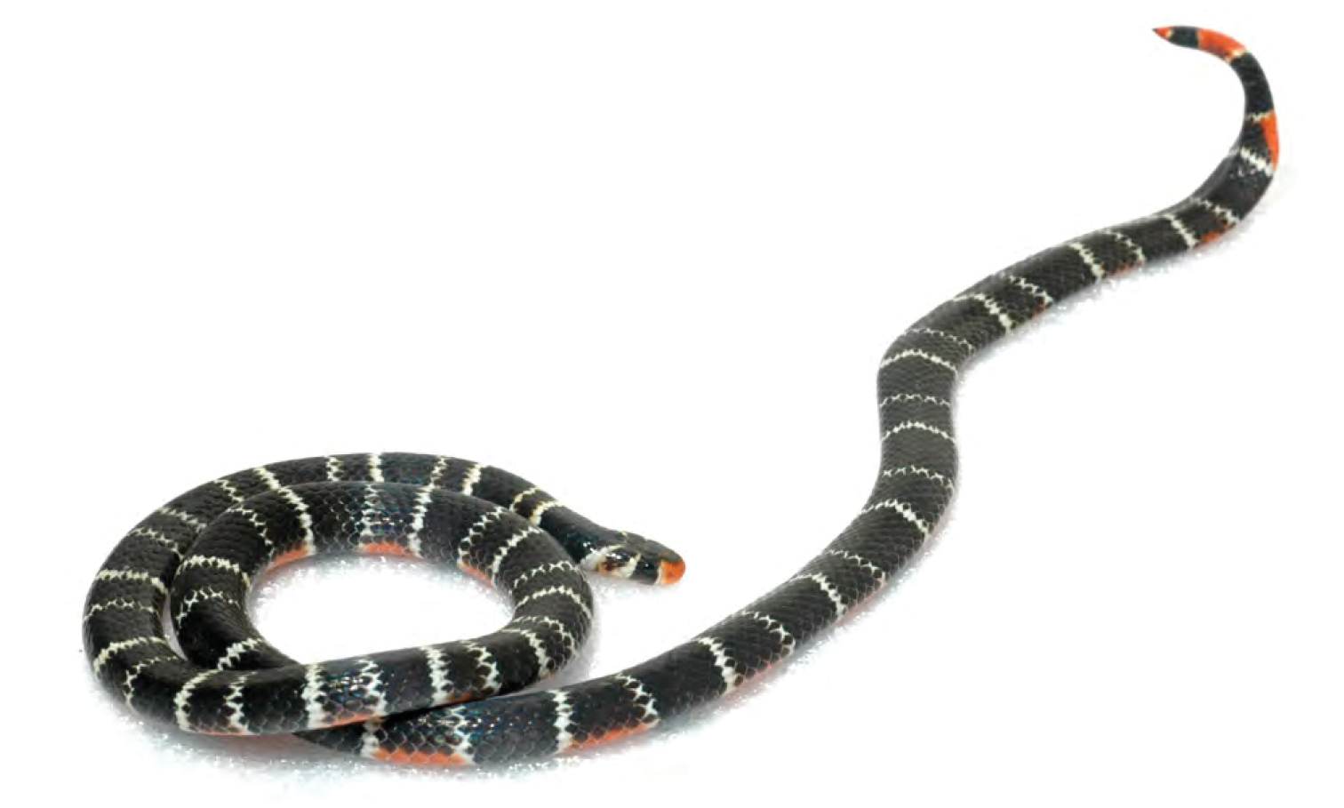 Hemibungarus calligaster calligaster (uncataloged ACD specimen in PNM). Photo: ACD.